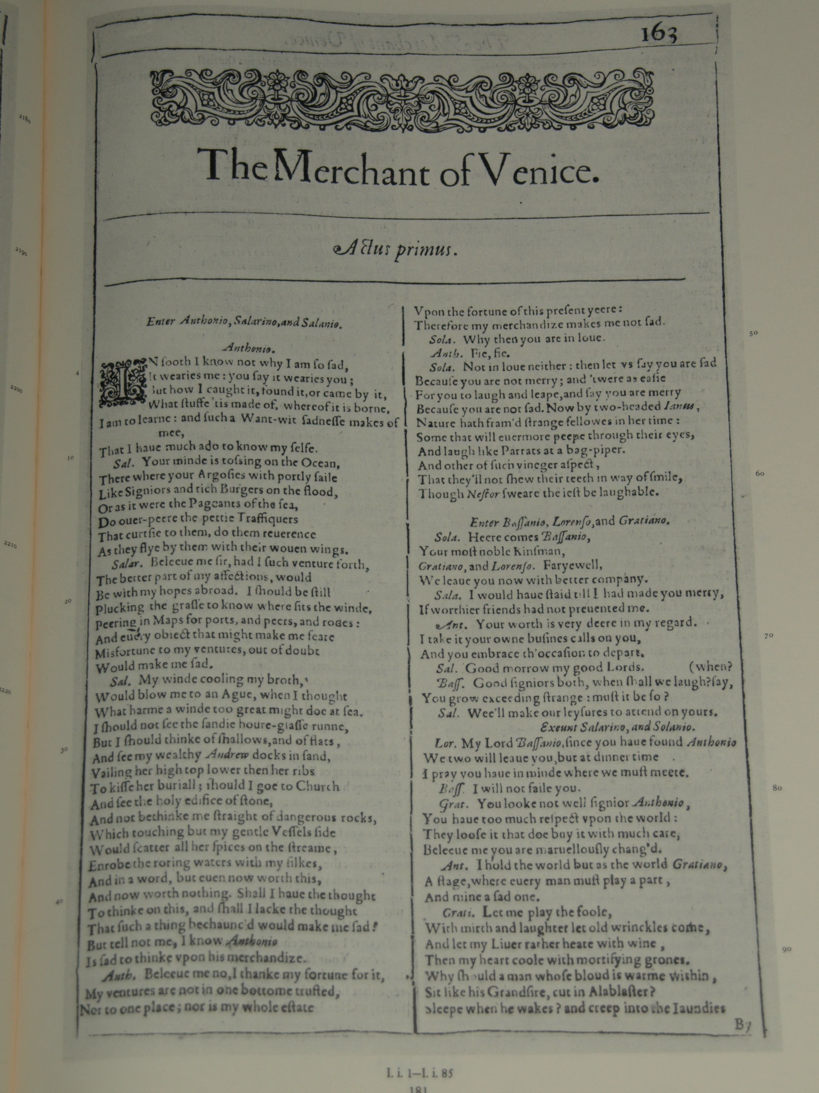 Photo of the first page of The Merchant of Venice from a facsimile edition of the First Folio of Shakespeare's plays, published in 1623